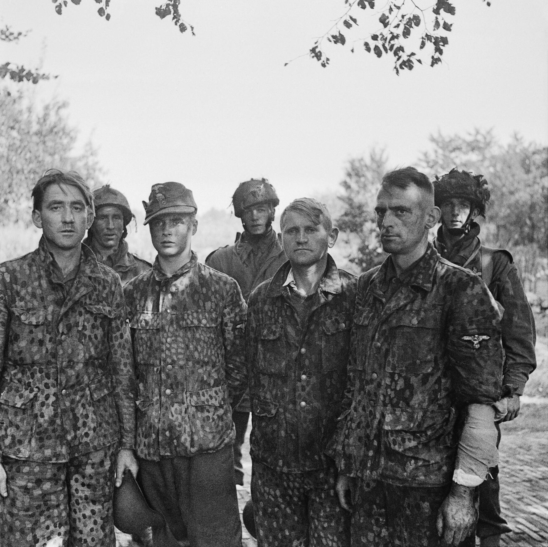 German prisoners captured in the suburbs of Arnhem.